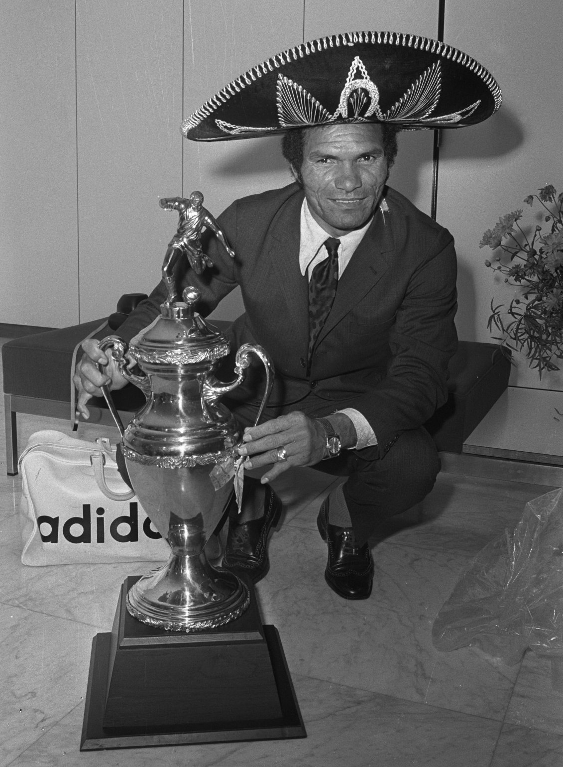 Manga (goalkeeper). Elftal Nacional (Uruguay) arriveert op doorreis op Schiph keeper Manga met Zuid Amerikaanse beker.